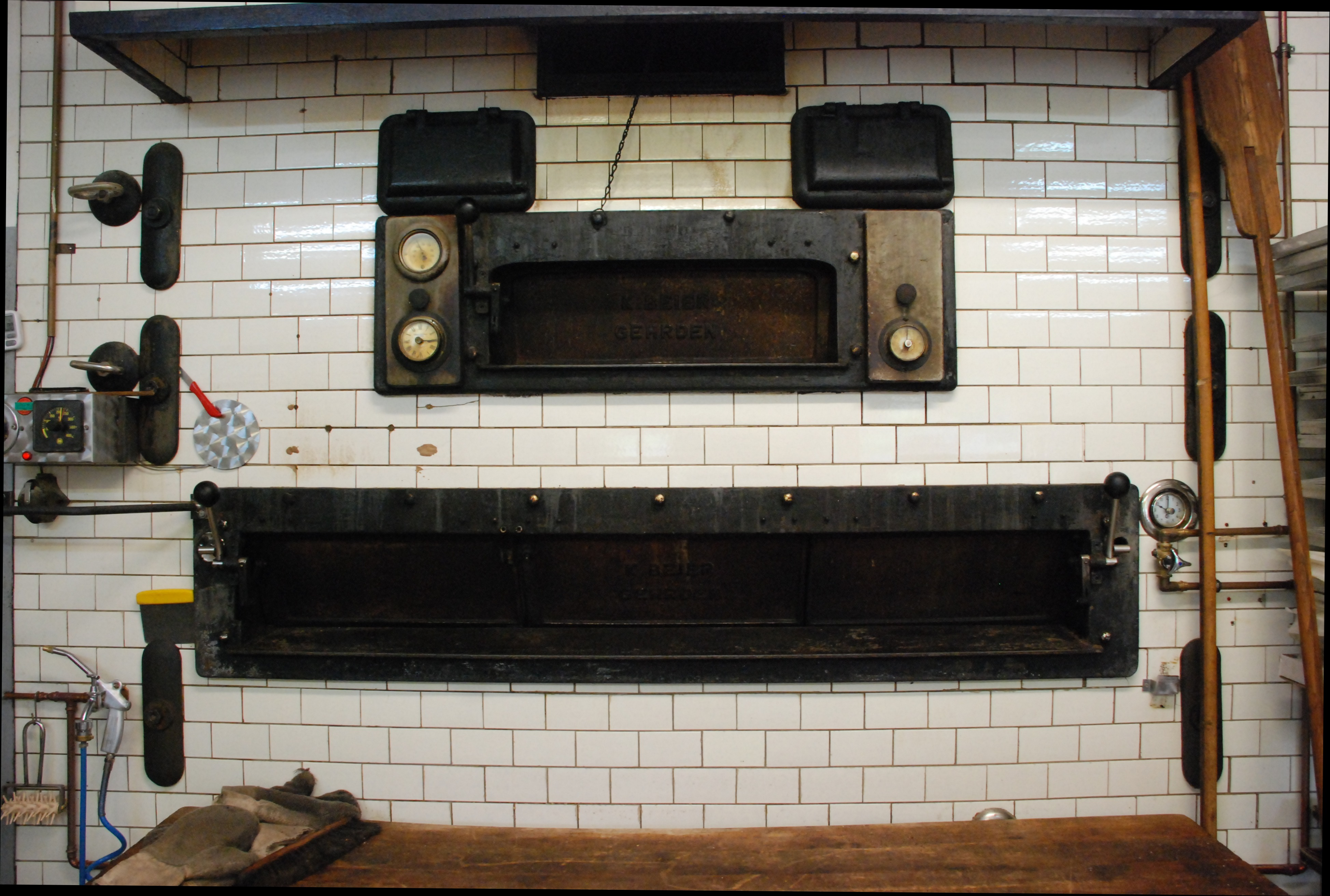 Baking oven, heated by steam flowing through pipes (Perkins oven) built 1959 in a bakery in Schloss Ricklingen, Germany.